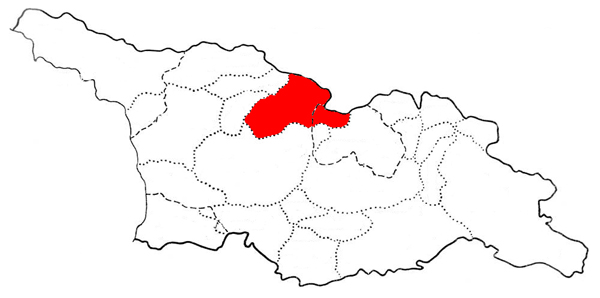 Location of Racha district in Georgia